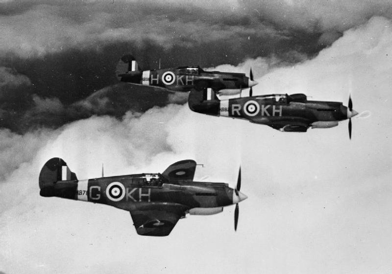 Royal Air Force Fighter Command, 1939-1945. Three Curtiss Tomahawks of No. 403 Squadron RCAF based at Baginton, Warwickshire, flying in 'vic' formation over clouds. In the foreground is a Mark I, AH878 'KH-G', accompanying two Mark IIAs, AH882 'KH-R' and AH896 'KH-H'. These were among the first Tomahawks to enter squadron service with the RAF, although 403 Squadron operated them for only a short time in the Army Cooperation role before converting to Supermarine Spitfires in May 1941.